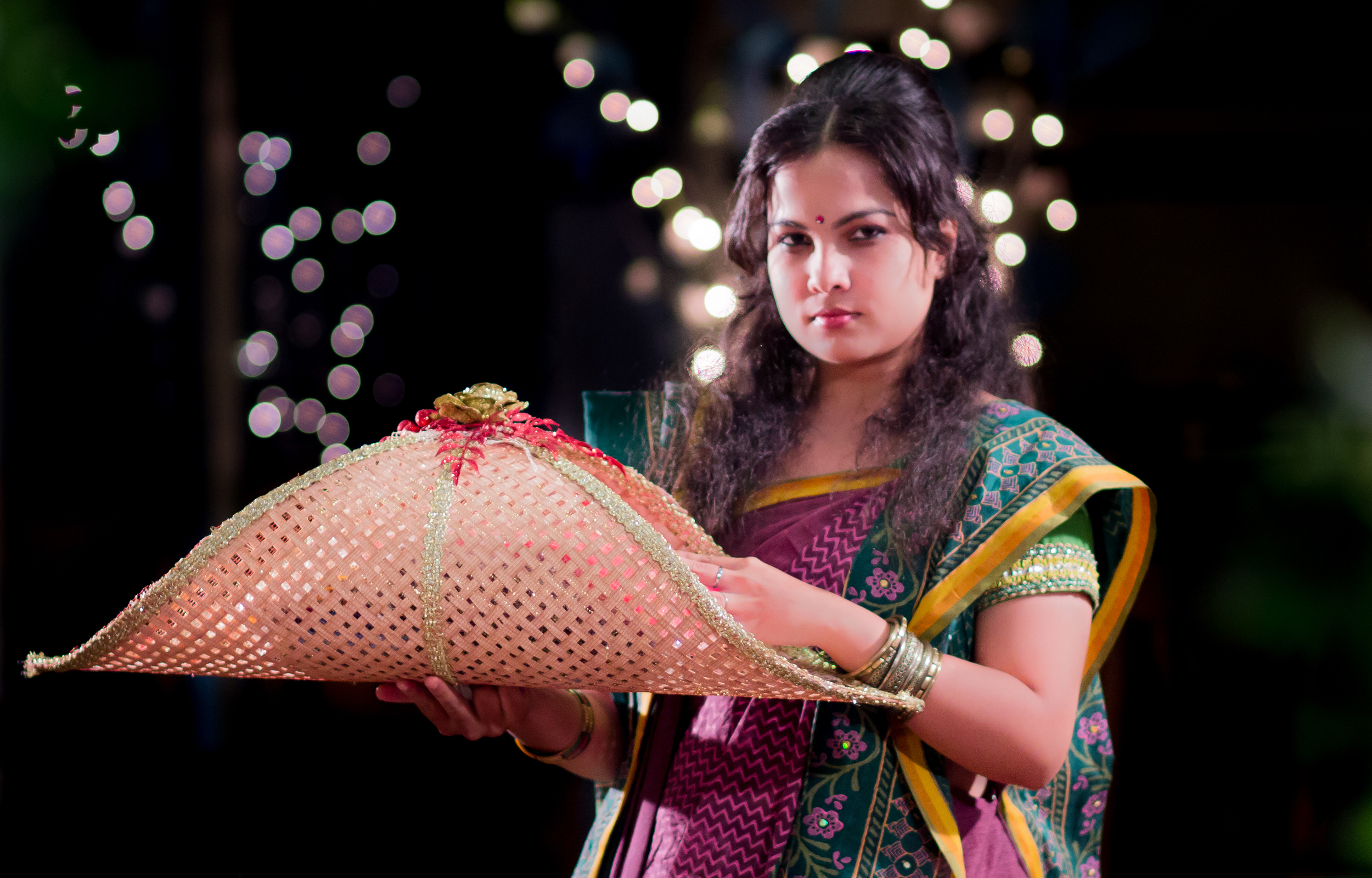 A girl with traditional gift of Gaye holud.